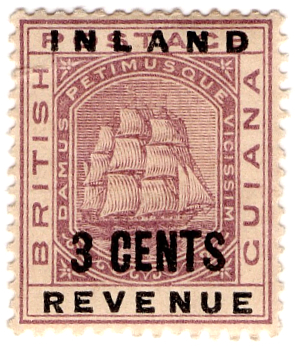 British Guiana Inland Revenue 1888 3c revenue stamp created.